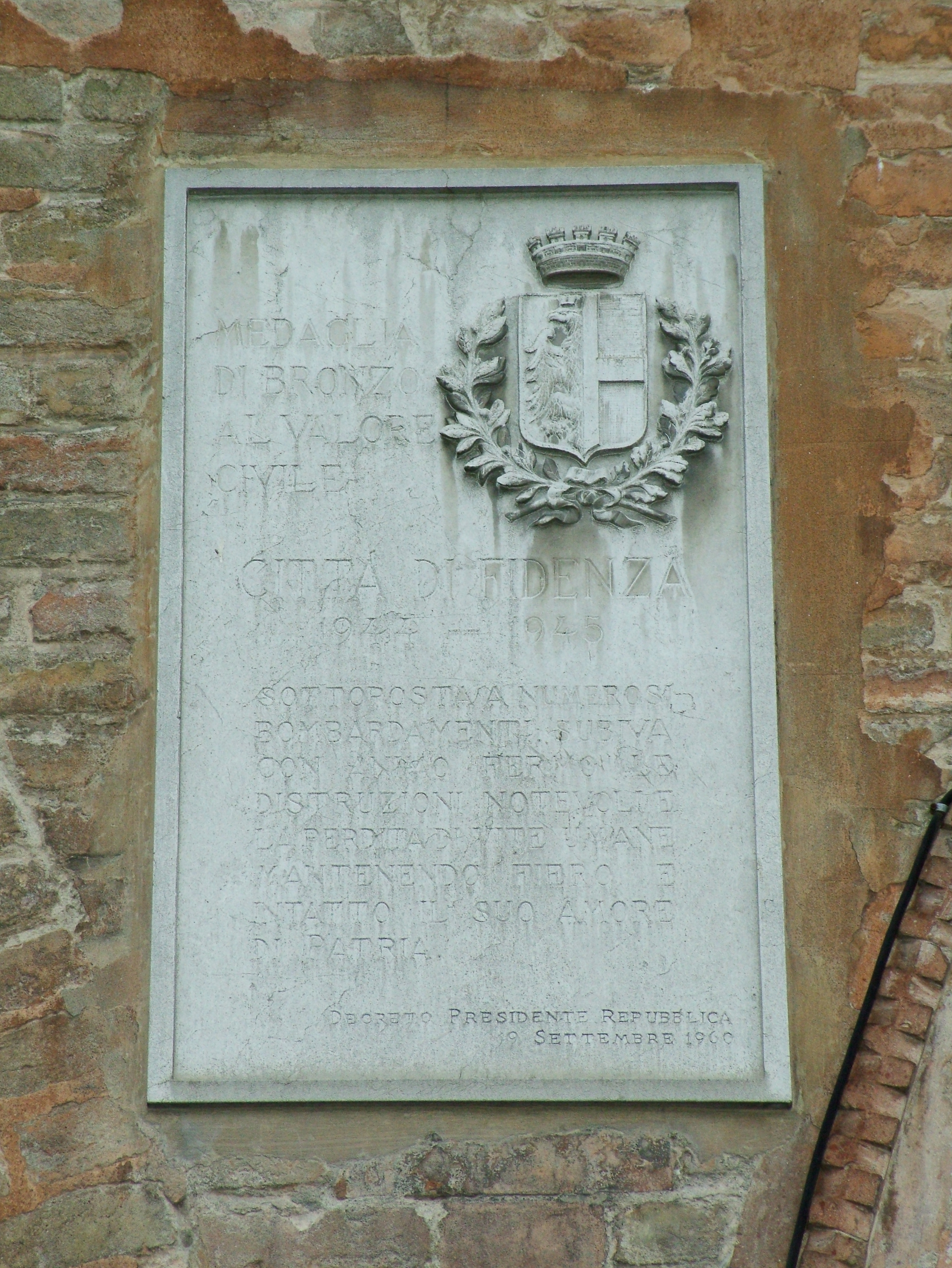 Plaque celebrating the bronze medal at the civil valor, given to the town of Fidenza, situated on the facade of City Hall of Fidenza, province of Parma, Italy.